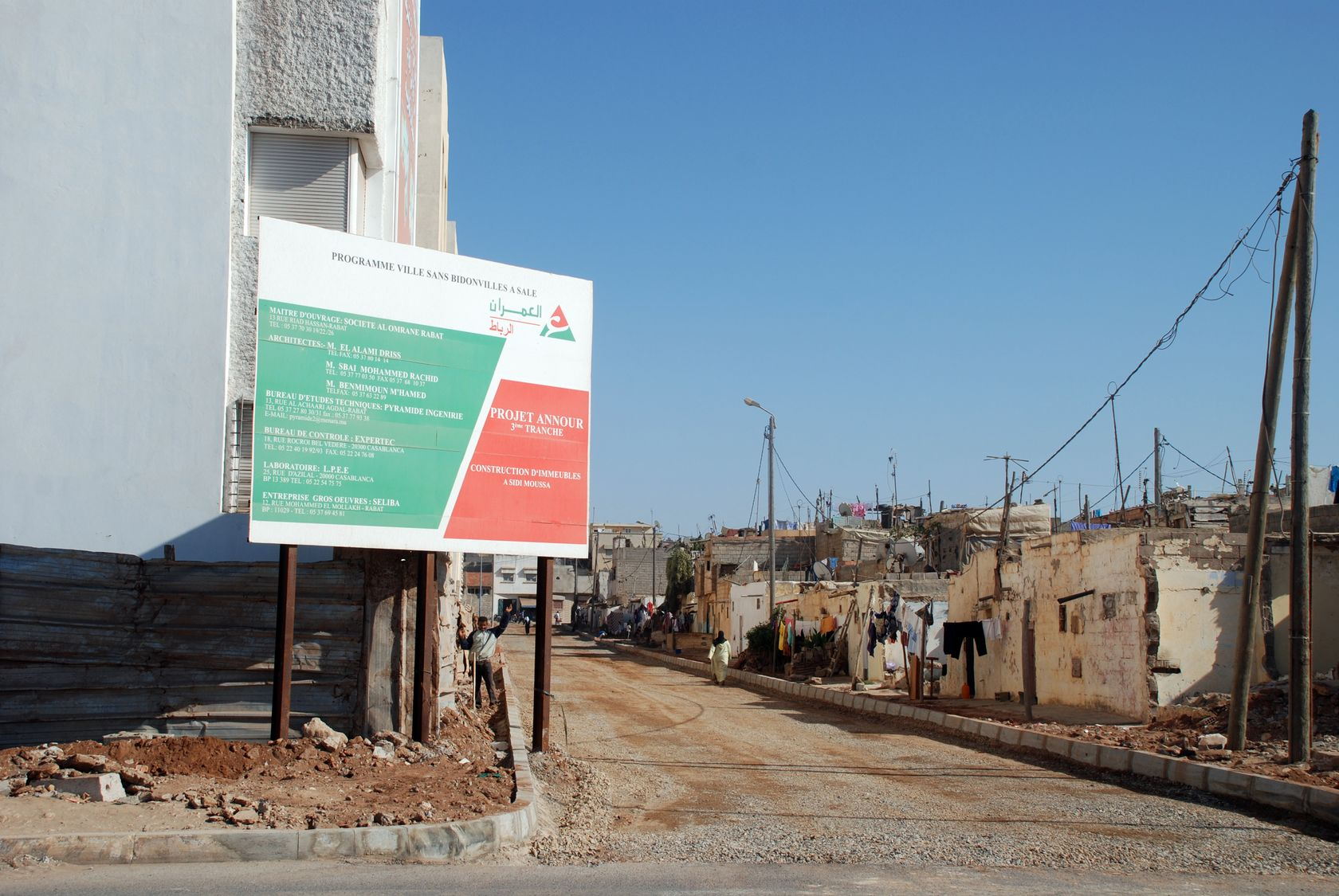 Salé, Morocco, slum area in Sidi Moussa